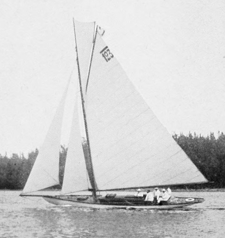 Lucky Girl at the 1912 Summer Olympics